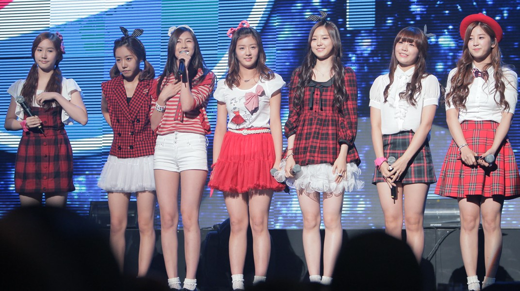 A Pink at the GSL Season 5 Code S Final Performance, 10 September 2011. Left to right: Yookyung, Namjoo, Hayoung, Bomi, Naeun, Eunji and Chorong.